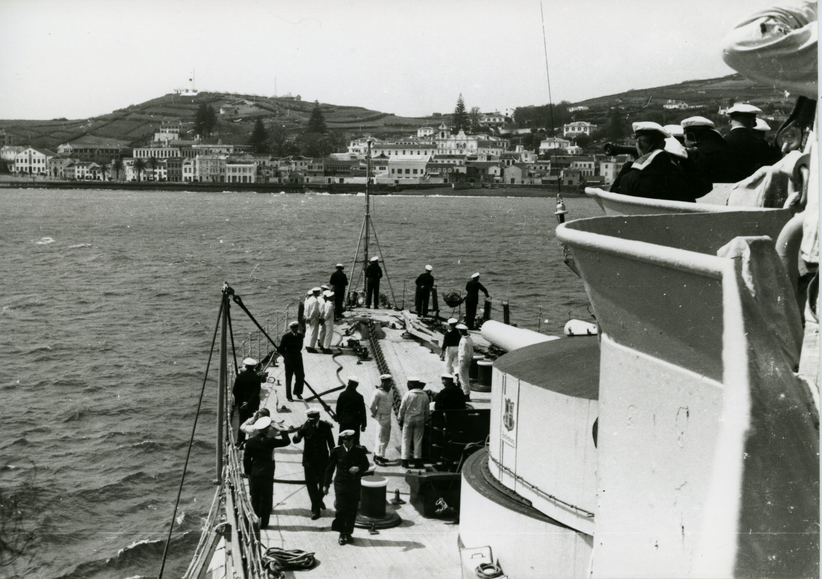 Horta (Azores). Picture taken from 05. April 1938, taken from SMS Schlesien. See also: Spraul, G.: "Vom Fähnlein zur Fahne in den Tod", ISBN 978-3-86634-502-7, p. 389ff